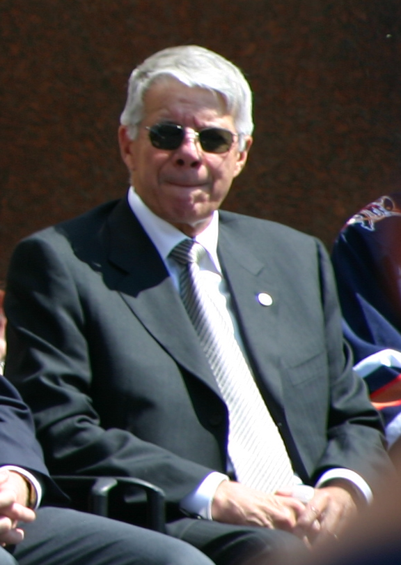 Patrick LaForge, Kevin Lowe and Cal Nichols in 2006